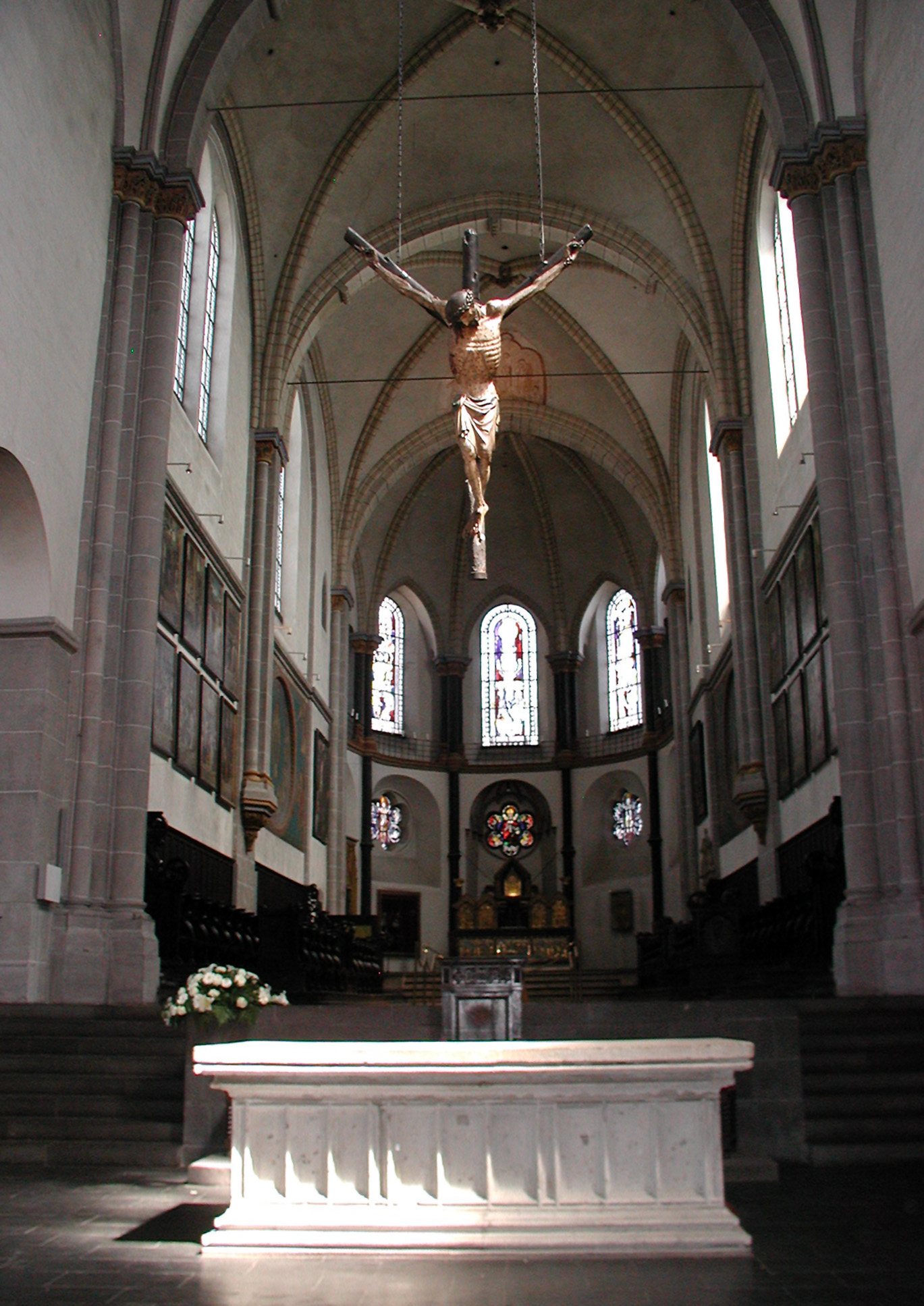 Cologne, church "St. Severin"